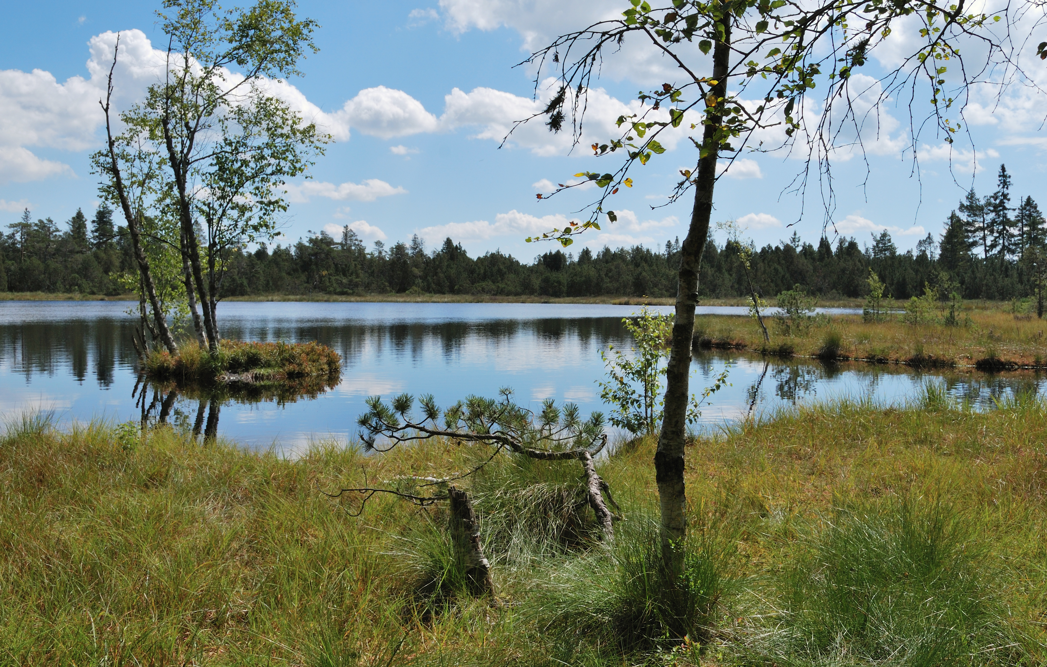 The Wildsee near Bad Wildbad in northern Black Forest in Germany.